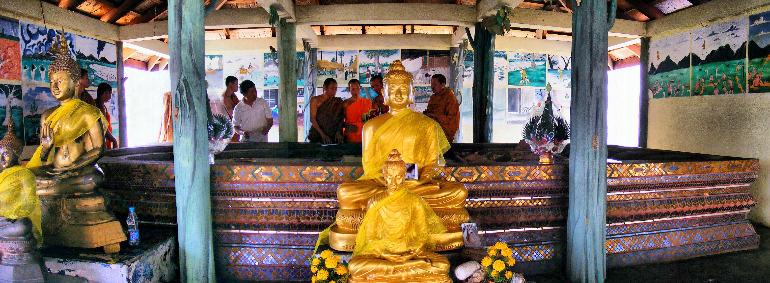 Buddhist temple in Mueang Uttaradit, Uttaradit Province, Thailand.